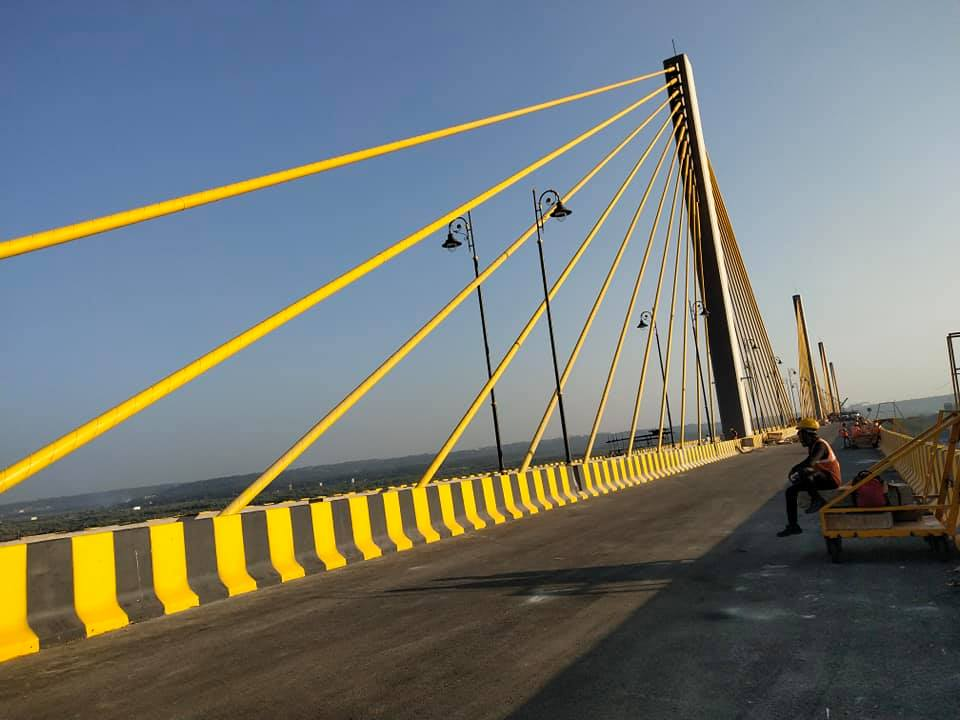 Depicted place: Mandovi Bridge